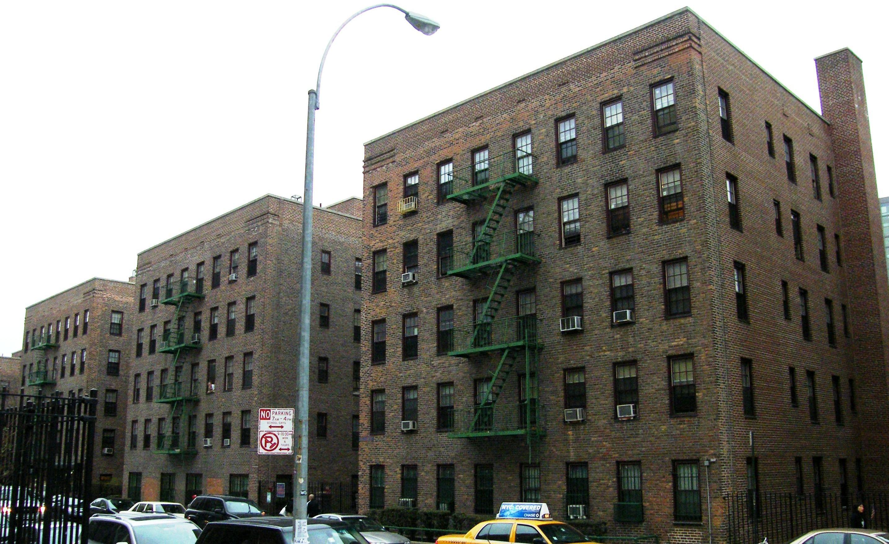 First House on East 3rd Street in East Village on National Register of Historic Places